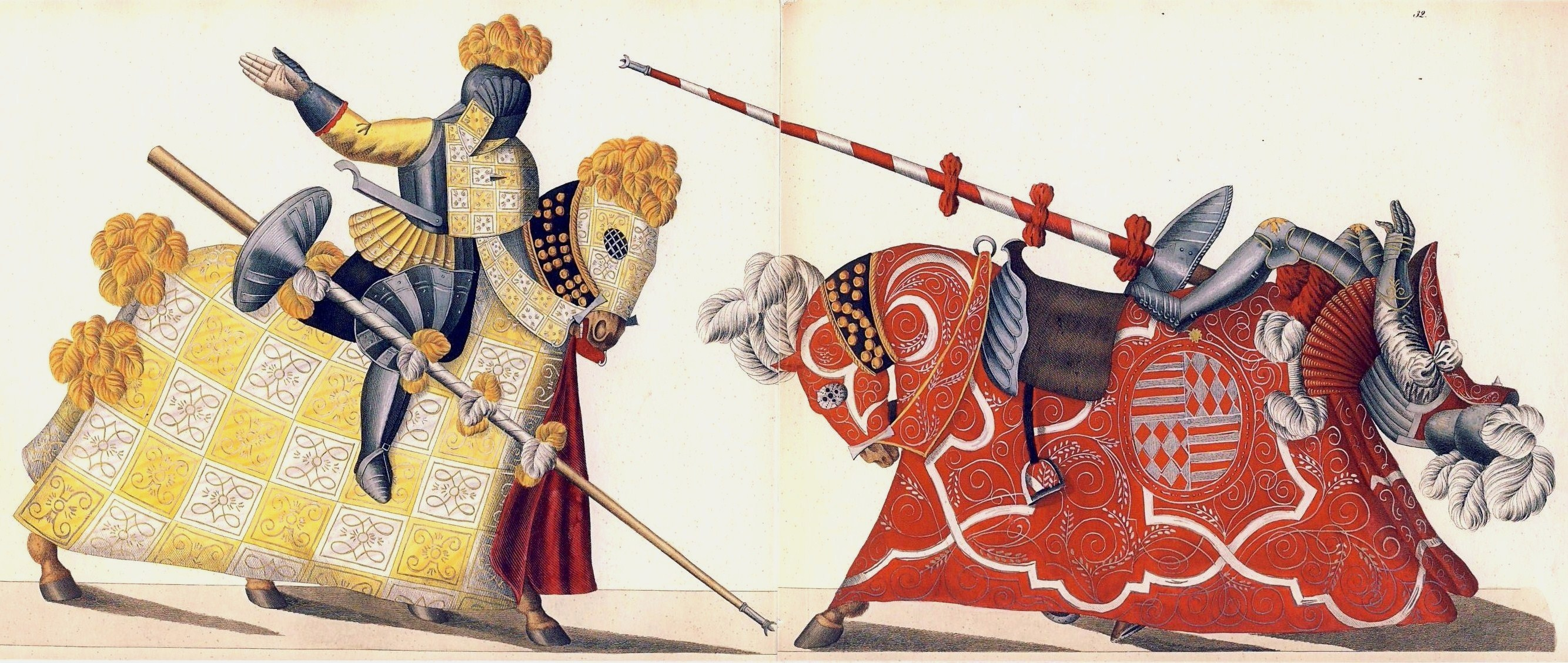 Two knights jousting, one falling